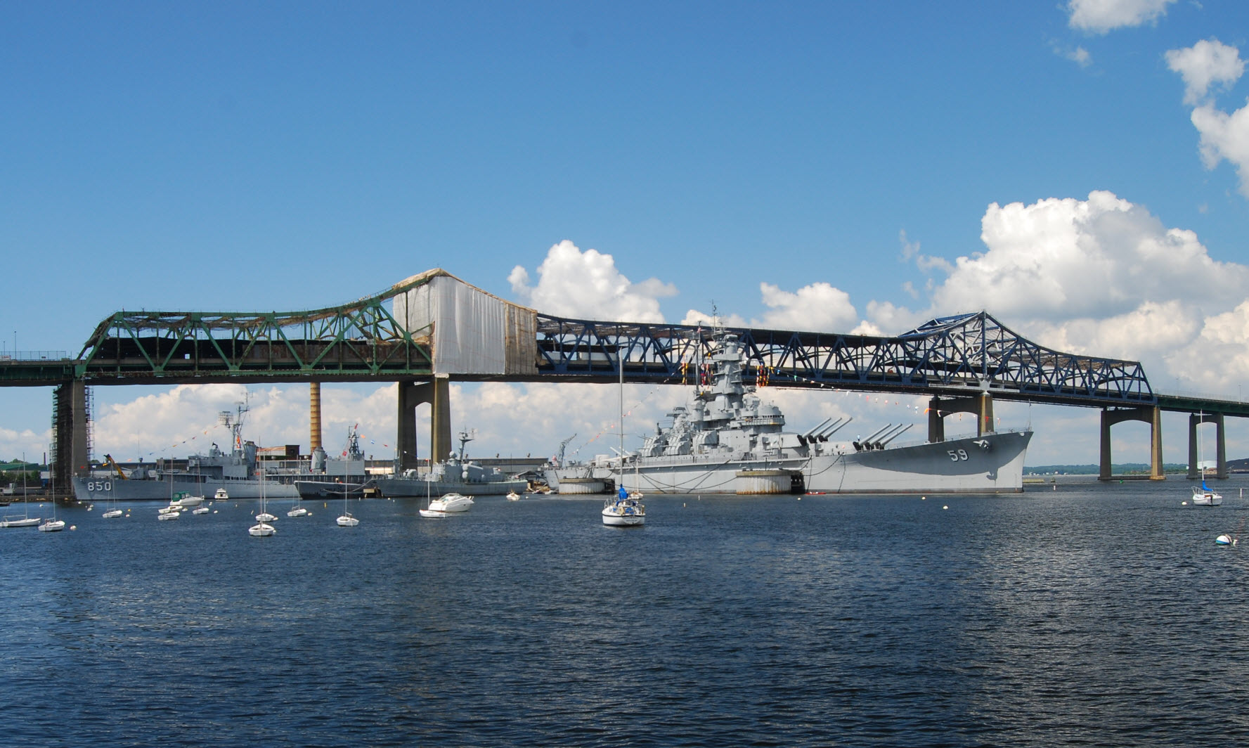 Charles M. Braga, Jr. bridge painting work, with new blue paint almost complete. Battleship Cove, Fall River, Massachusetts. July 2, 2011